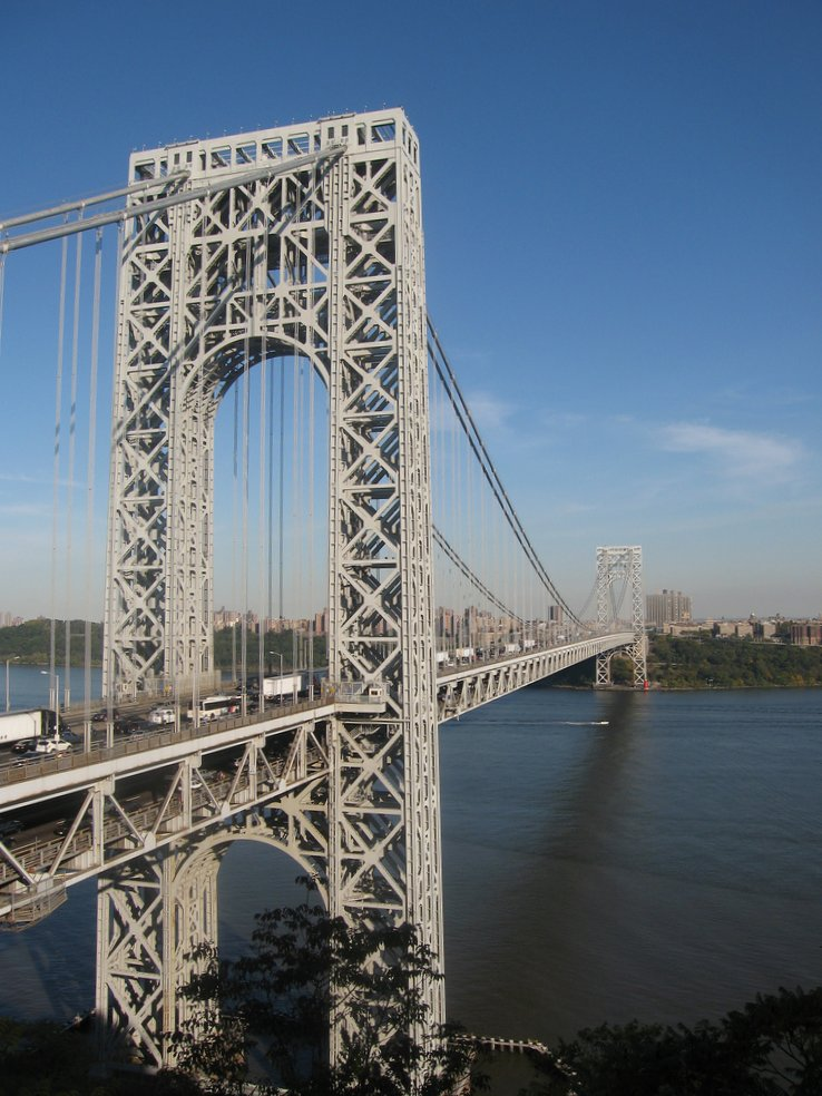 The George Washington Bridge over the Hudson River in New York